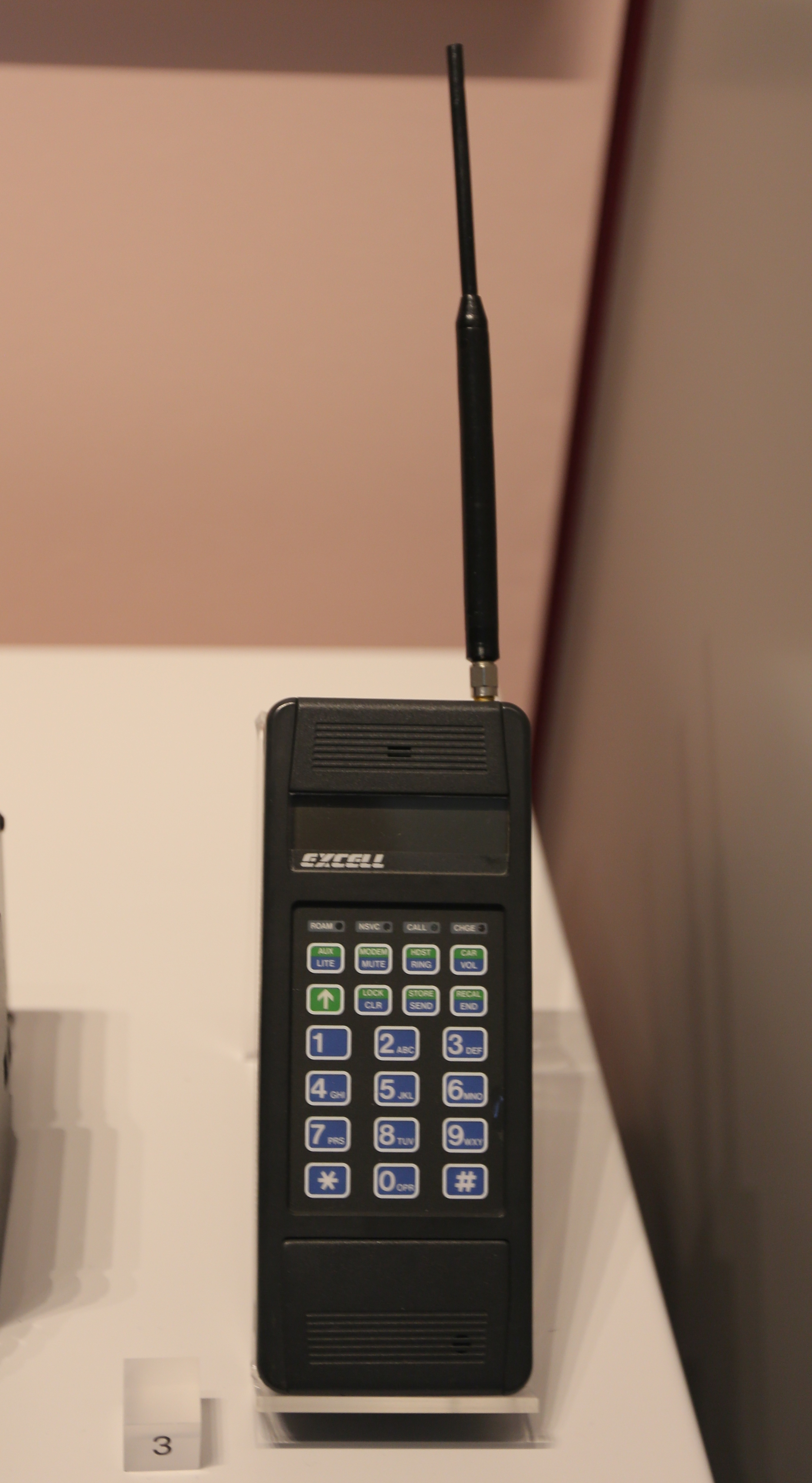 Photo of a EXCELL PC105T mobile phone